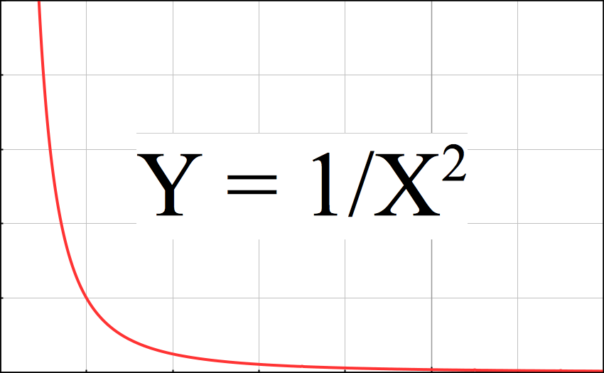 Graph of Y as a function of the inverse of x squaired